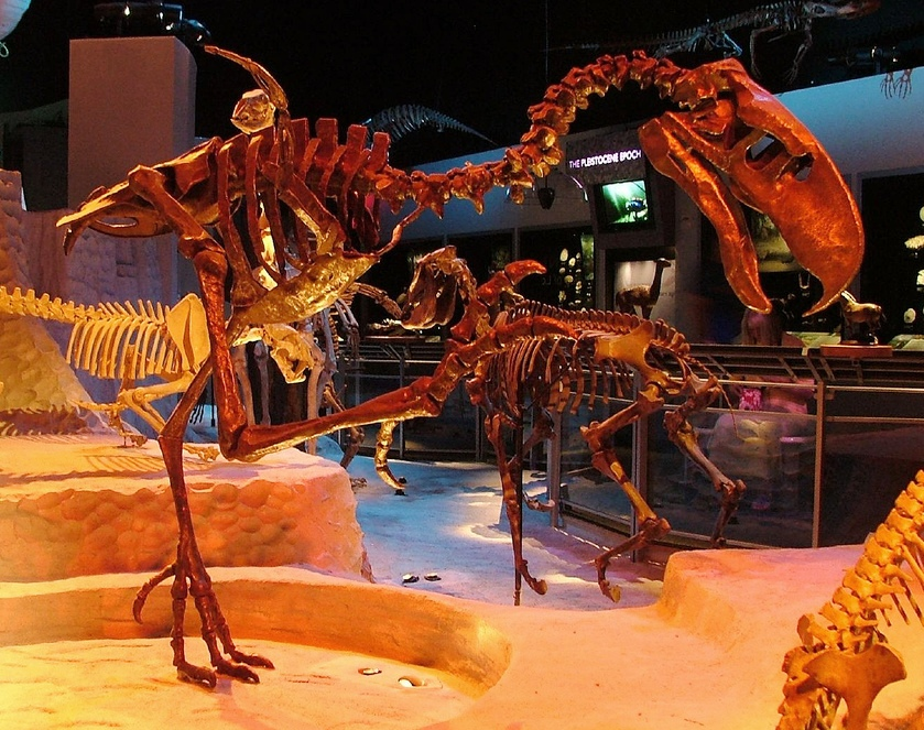 Skeleton of the terror bird Titanis walleri at the Florida Museum of Natural History.